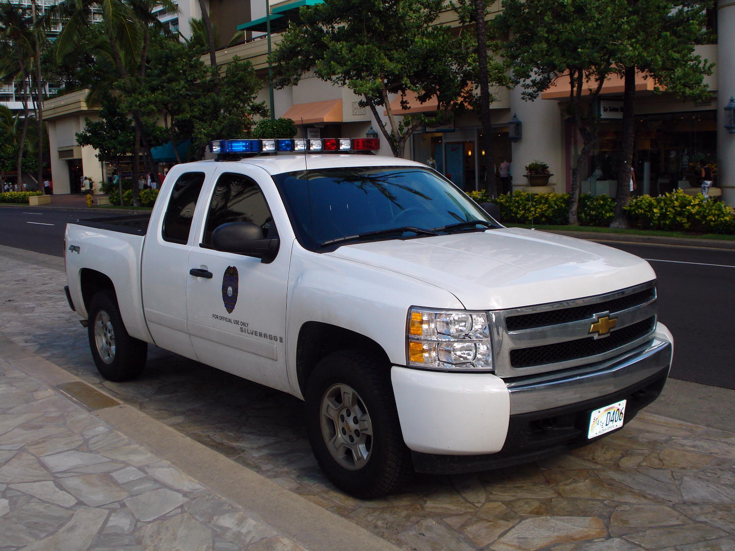 Hawaii DLNR Truck